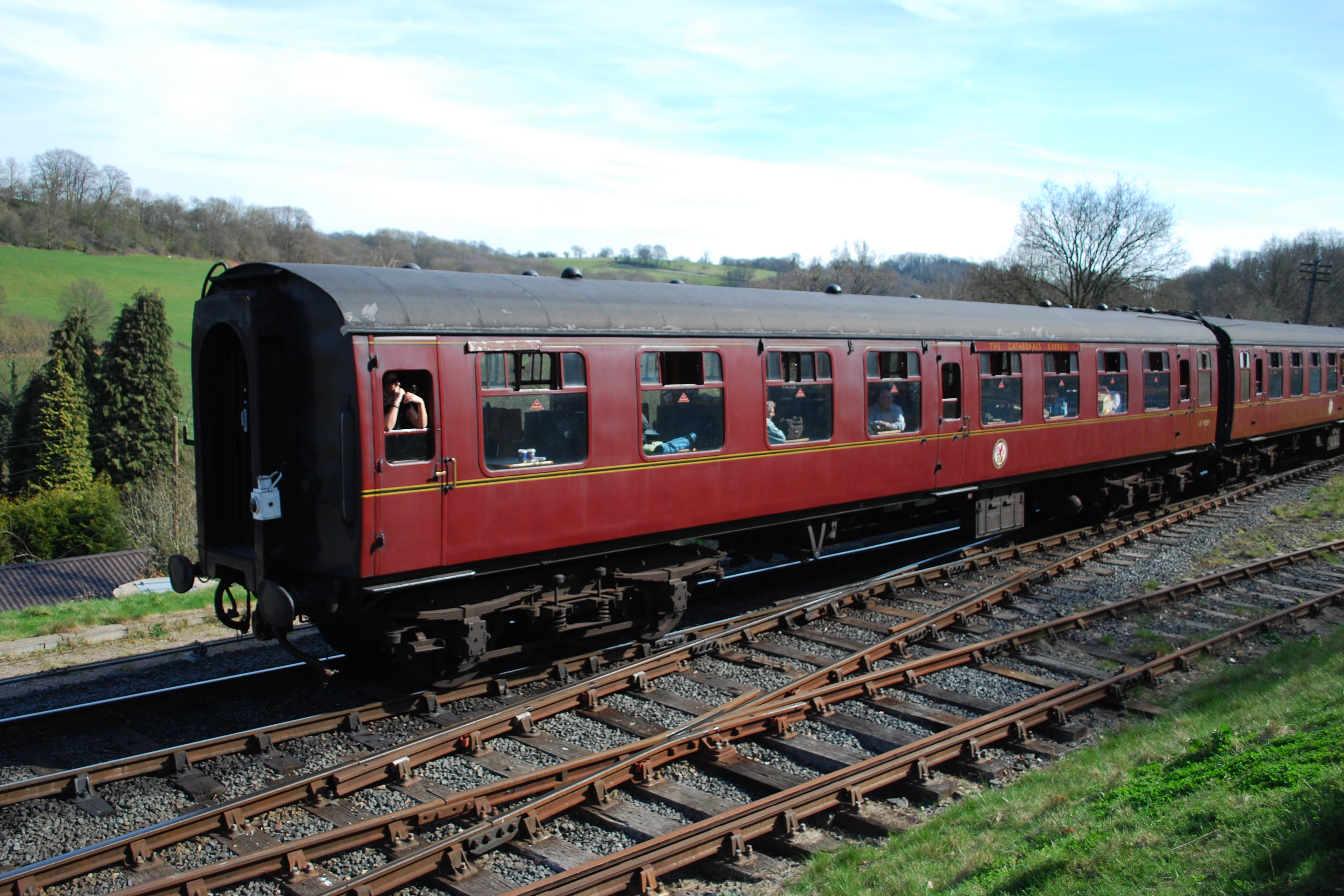 BR Mk.I TSO No.GE4584 of the SVR in 1956 BR maroon livery and the short lived "GE" prefix (1961-64), built as Diagram 93, Lot 30243 by BR (York), 1956. At Highley, Severn Valley Railway, 03/12.